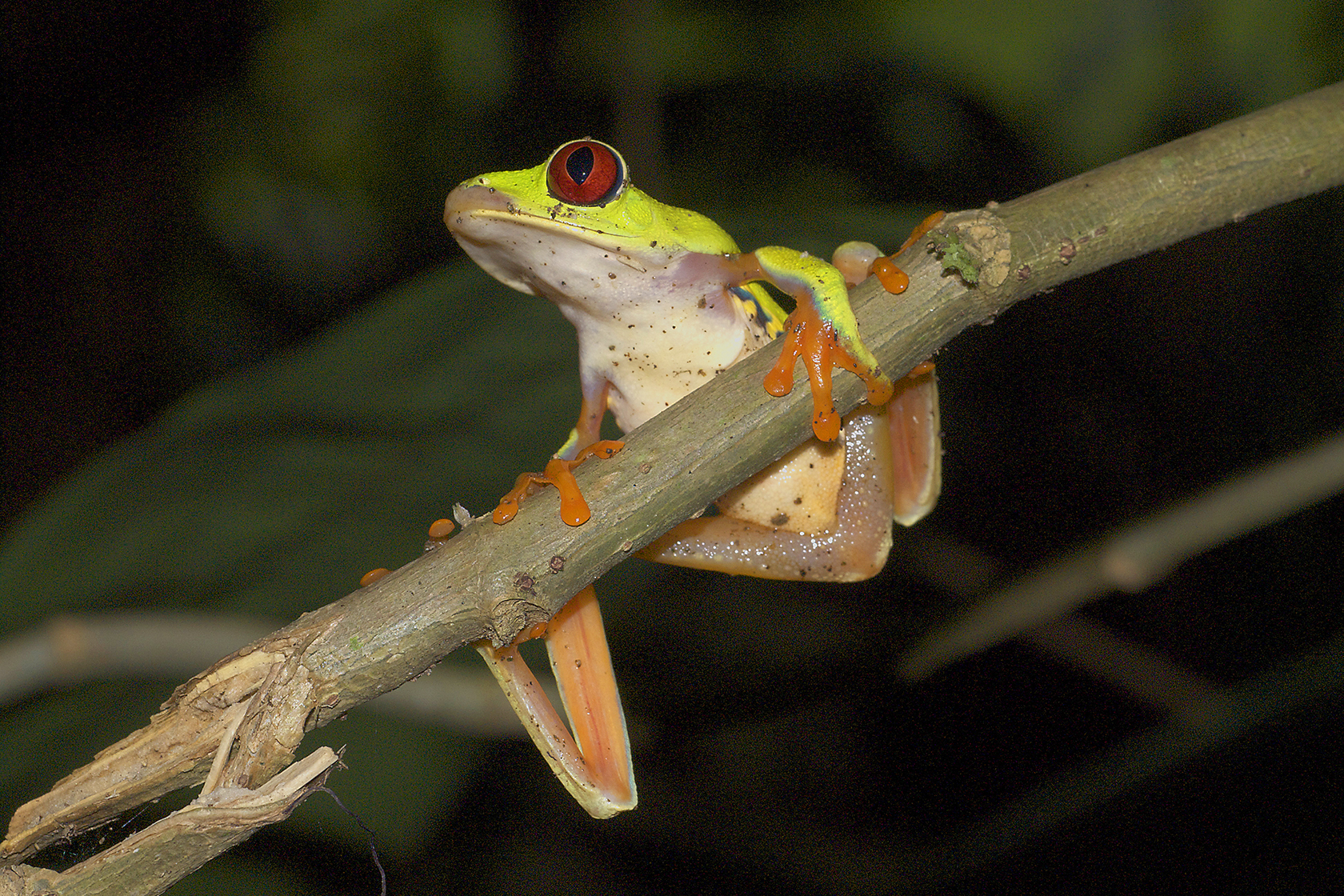 Agalychnis callidryas, in Cahuita, Costa Rica